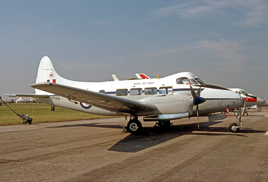 DH.104 Devon (Dove) of No. 207 Squadron RAF at RAF Finningley in 1977